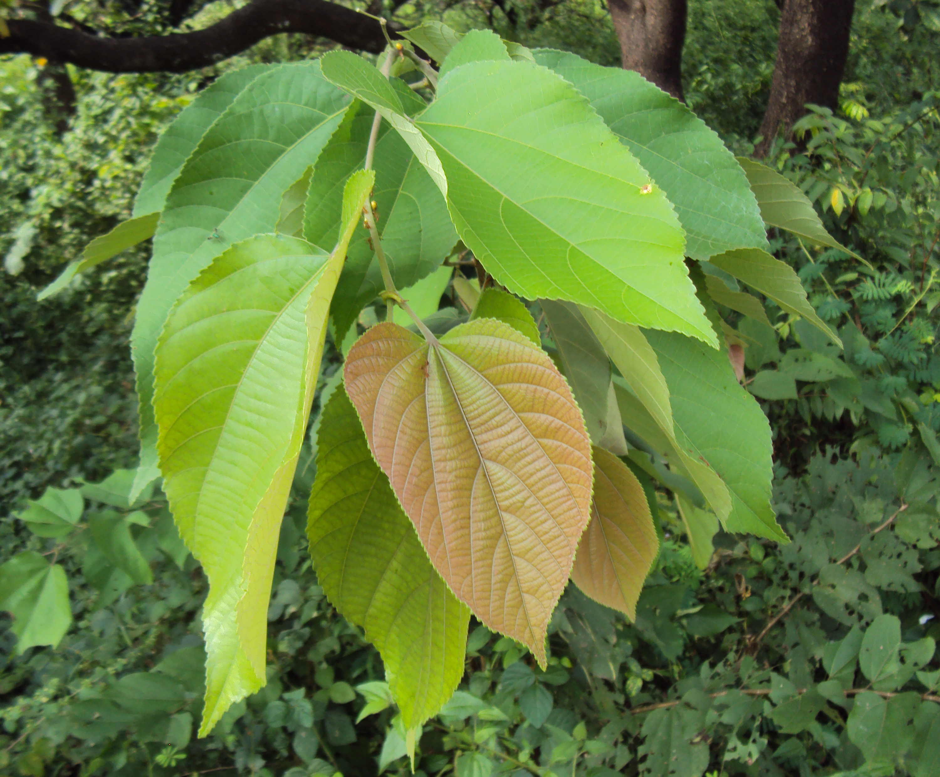 Grewia tiliifolia leaves